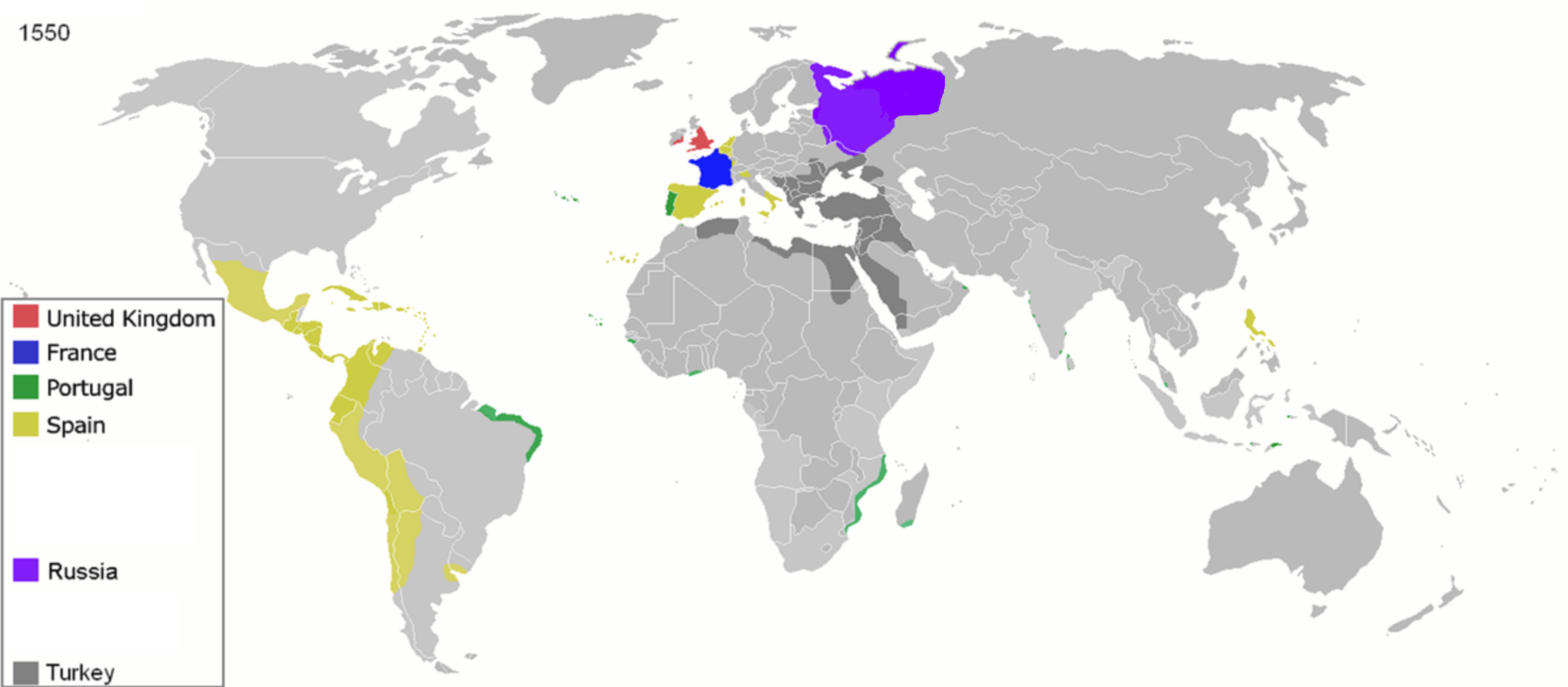 Map of major world powers by year Maps of world history BC 2000 · 1000 · 500 · 400 · 323 · 300 · 200 · 100 · 50 AD 1 · 50 · 100 · 200 · 250 · 300 · 400 · 500 · 700 · 750 · 820 · 900 · 1556 · 1700 · 1815 · 1859 Maps of colonization history 1492 · 1550 · 1600 · 1660 · 1754 · 1800 · 1812 · 1822 · 1885 · 1898 · 1914 · 1920 · 1936 · 1938 · 1945 · 1959 · 1974 · 1975 · 2007 Animated Map Maps of Cold War 1959 · 1980 · see also: Eastern Hemisphere only maps template (1300BC-1500AD) (this template: · view · discuss ) As the orriginal licence of the animation was Public Domain, this image which has been derived from it is too: This work has been released into the public domain by its author, Andrei nacu. This applies worldwide. In some countries this may not be legally possible; if so: Andrei nacu grants anyone the right to use this work for any purpose, without any conditions, unless such conditions are required by law.